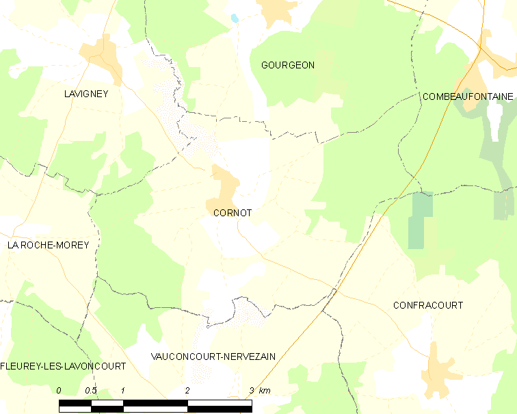 Map of French municipality